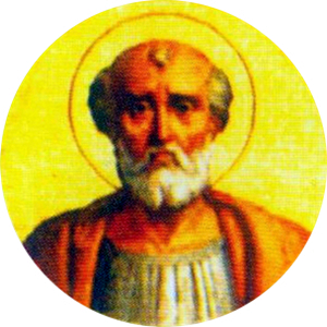 Portait of Pope Callixtus I in the Basilica of Saint Paul Outside the Walls, Rome